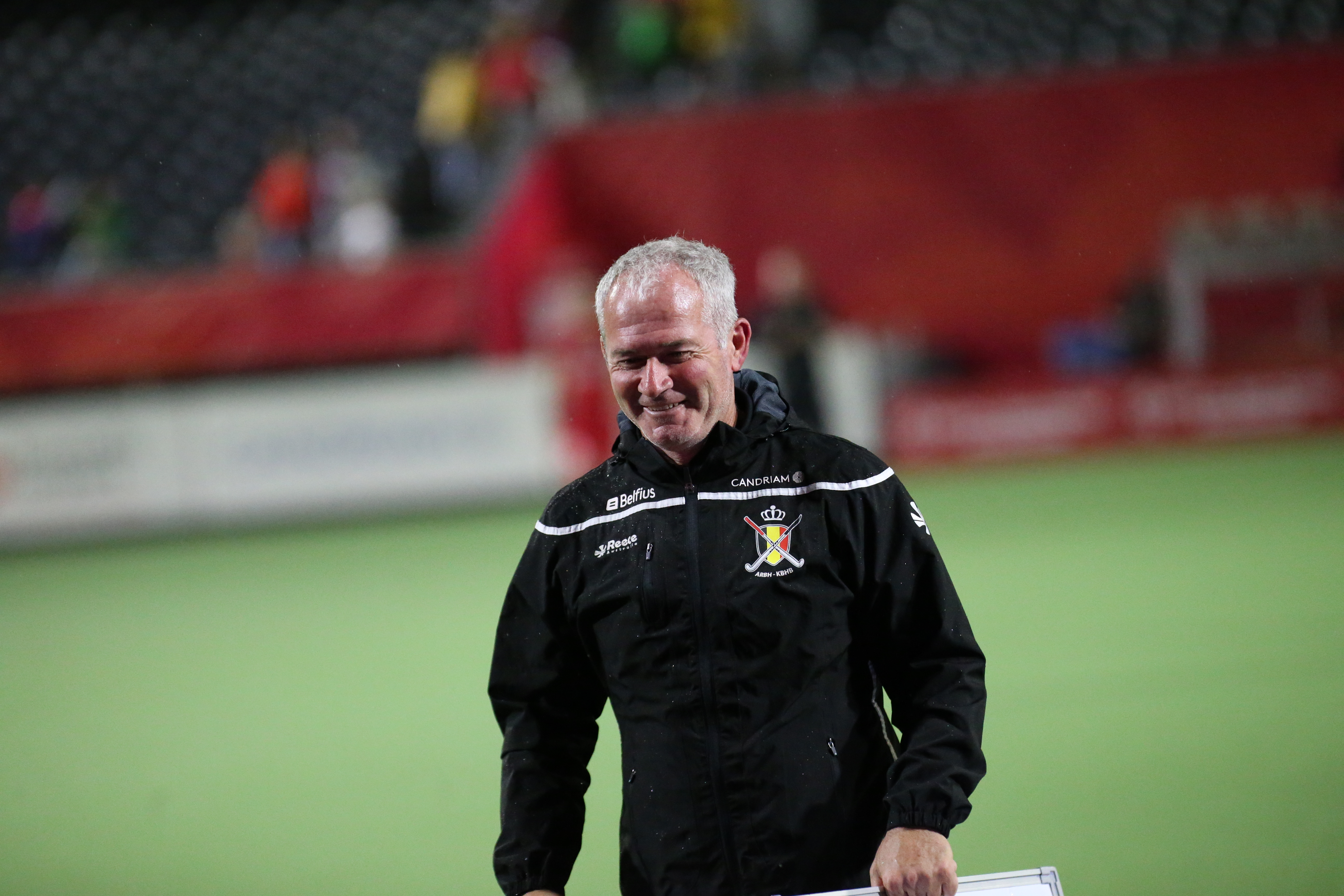 Shane Mcleod pictured at the end of the game during Belgium vs Spain / Euro Hockey Championship at Antwerp, Belgium